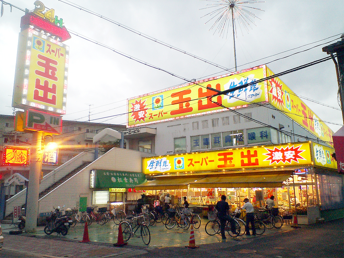 Super Tamade Izumi-Otsu